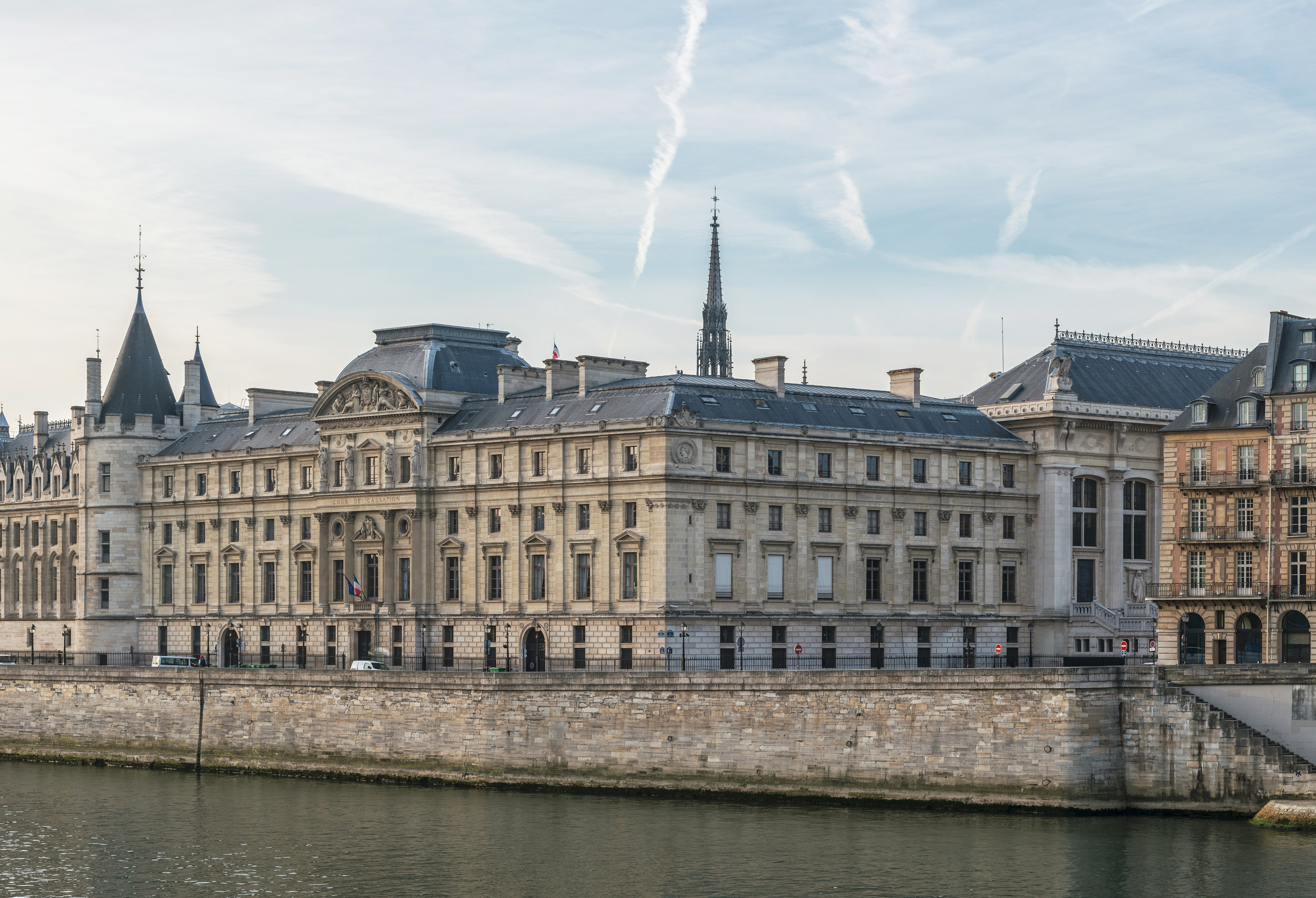 The building of the Court of Cassation as seen from the Pont Neuf, Paris, France.